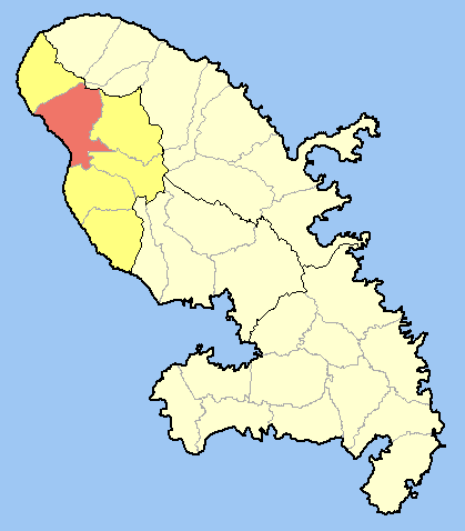 Location of Saint-Pierre within Martinique